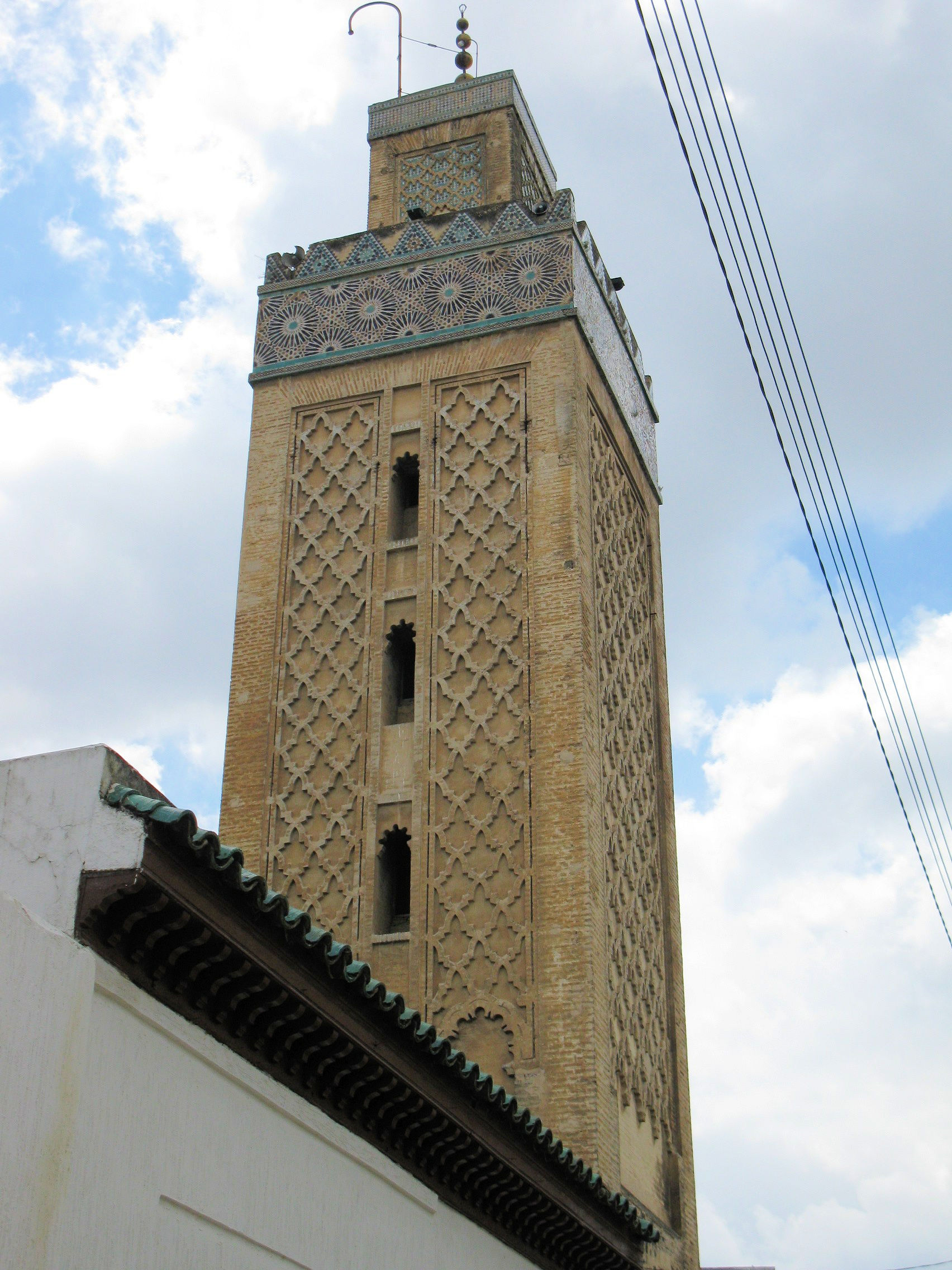 Great Mosque of Fes el-Jdid.